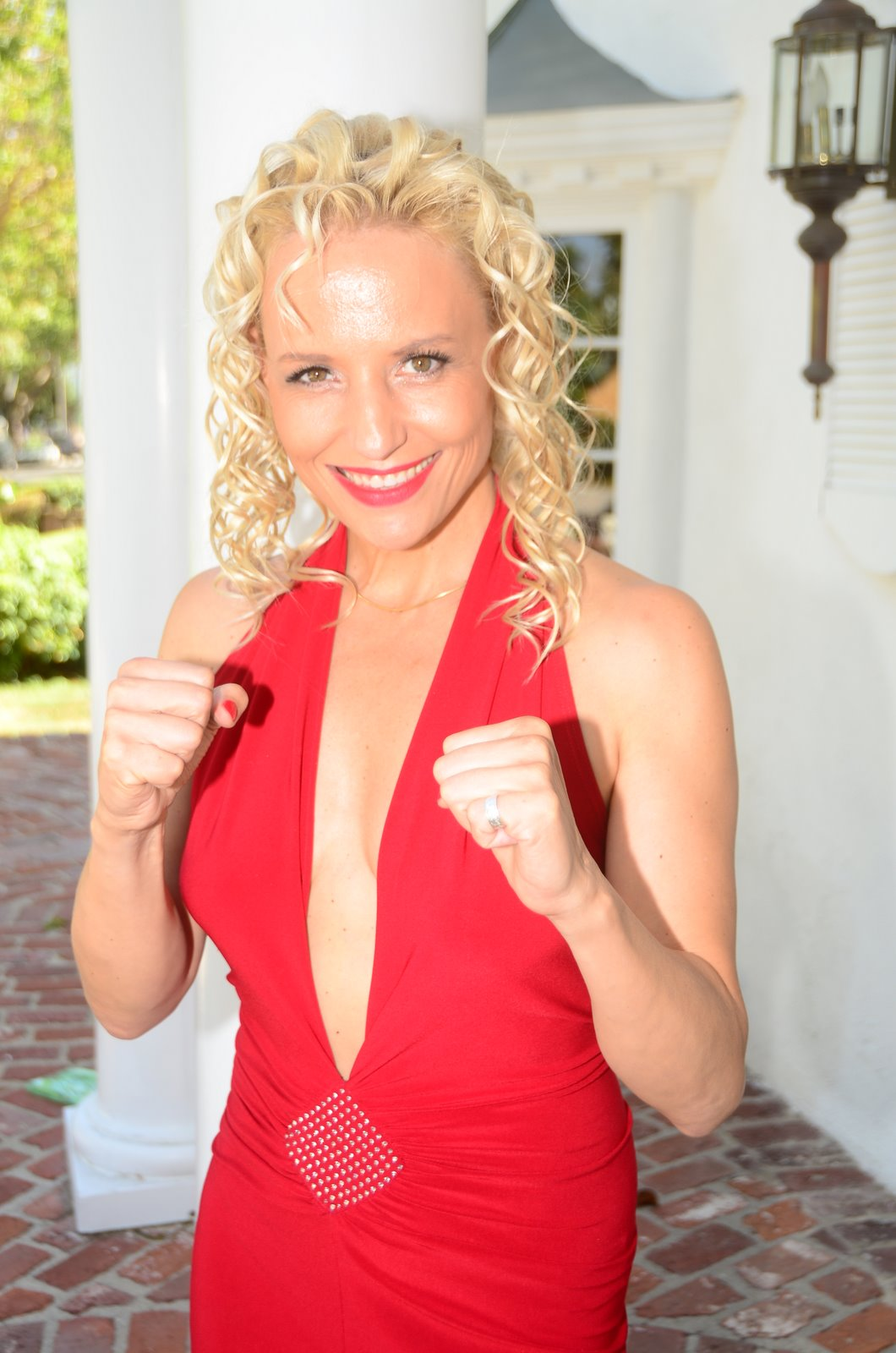 Personal picture of Ms. Daisy Lang